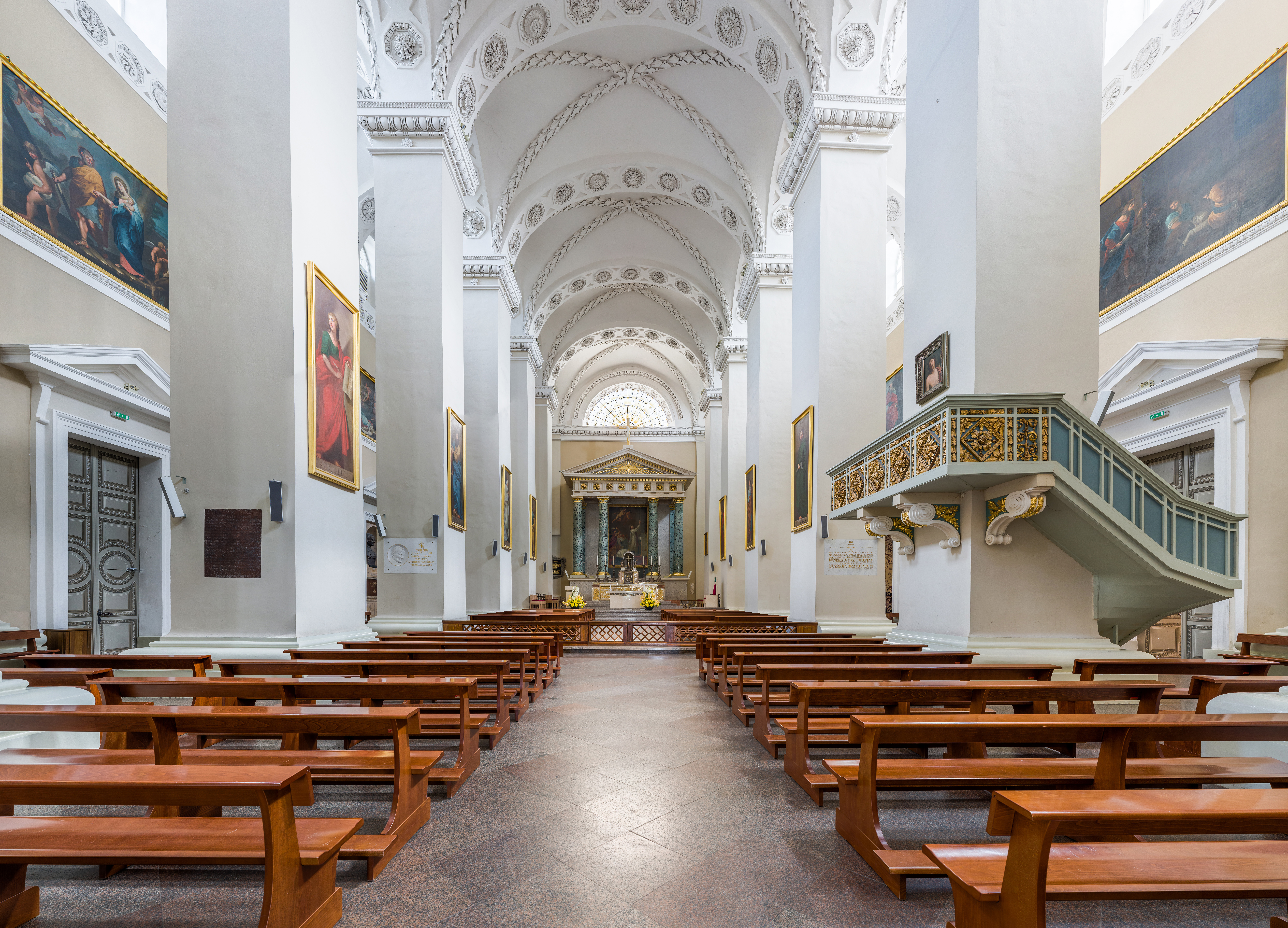 The interior of Vilnius Cathedral, Lithuania.